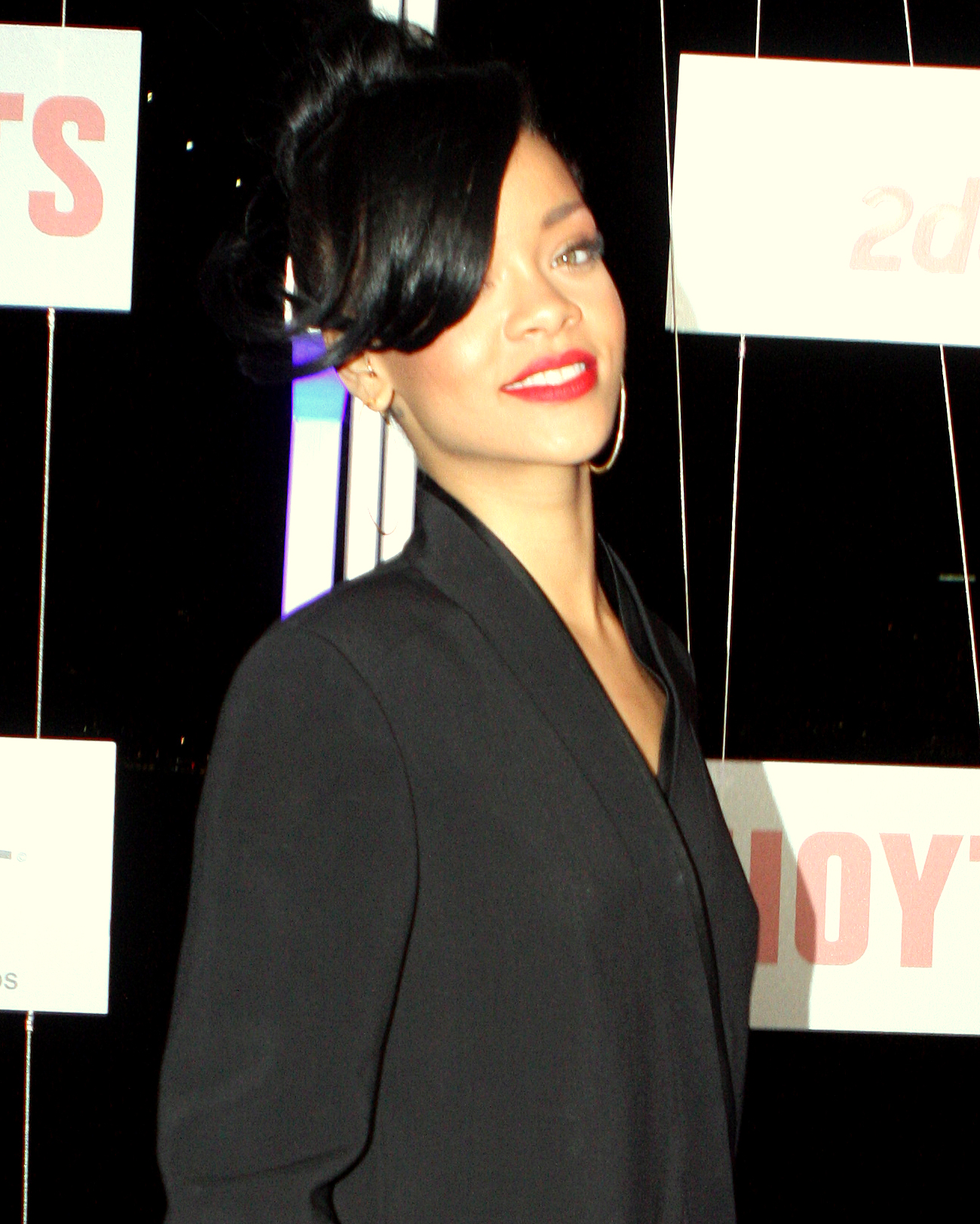 Rihanna at the Battleship Australian Premiere 2012.